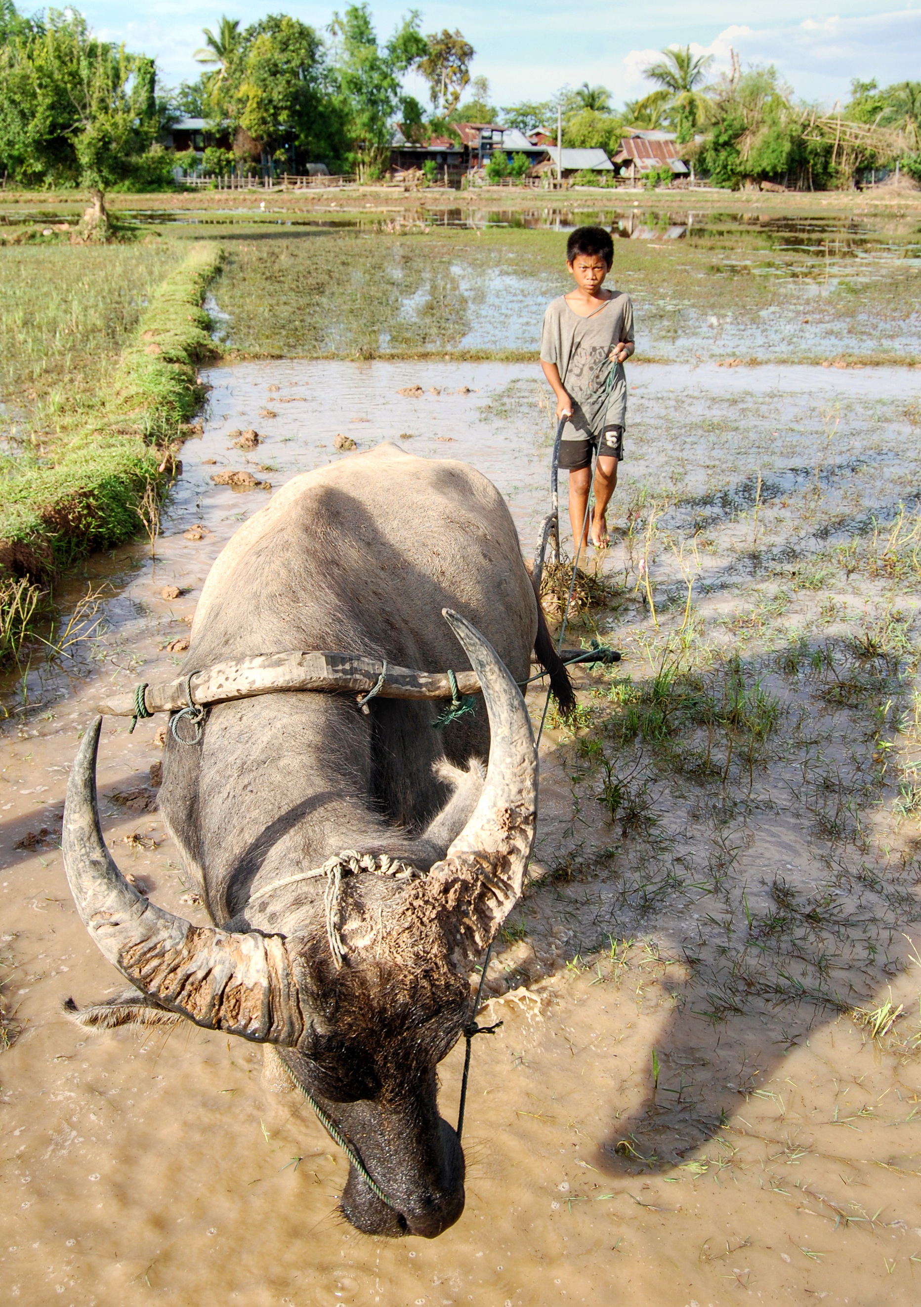 A child ploughing the land with a water buffalo in Don Det, Si Phan Don, Laos (note: this is not in fact an ox)C.